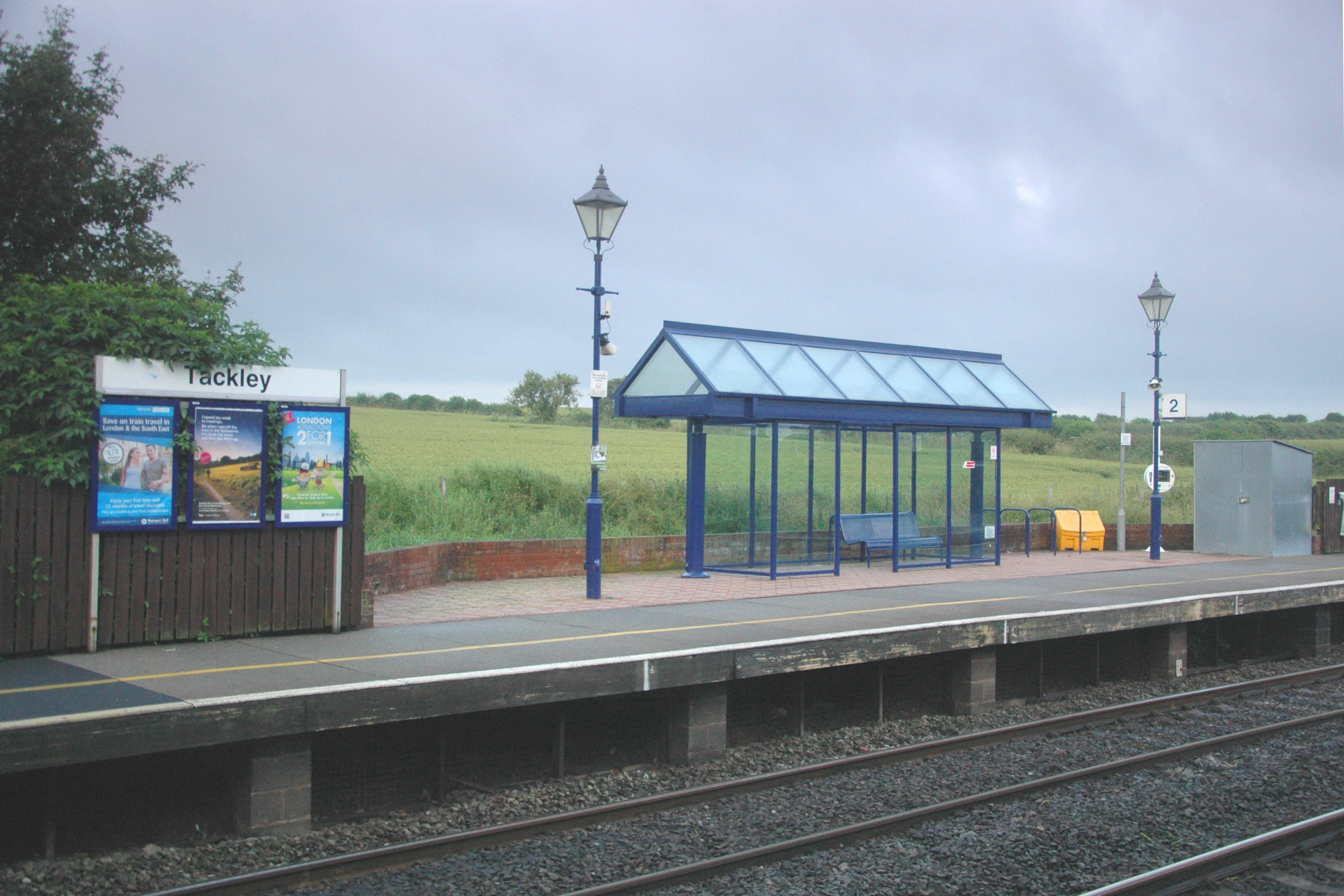 Tackley railway station, Oxfordshire: the "up" platform viewed from the "down" platform.